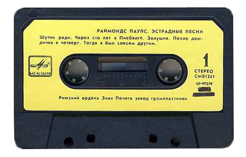 Cropped from File:MusicRecordsUSSR.jpg